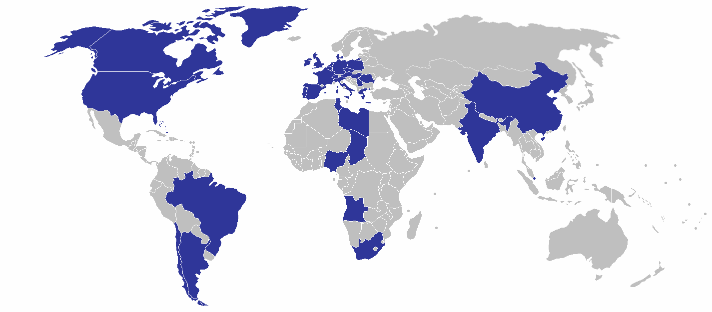 Europ Assistance worldwide subsidiaries